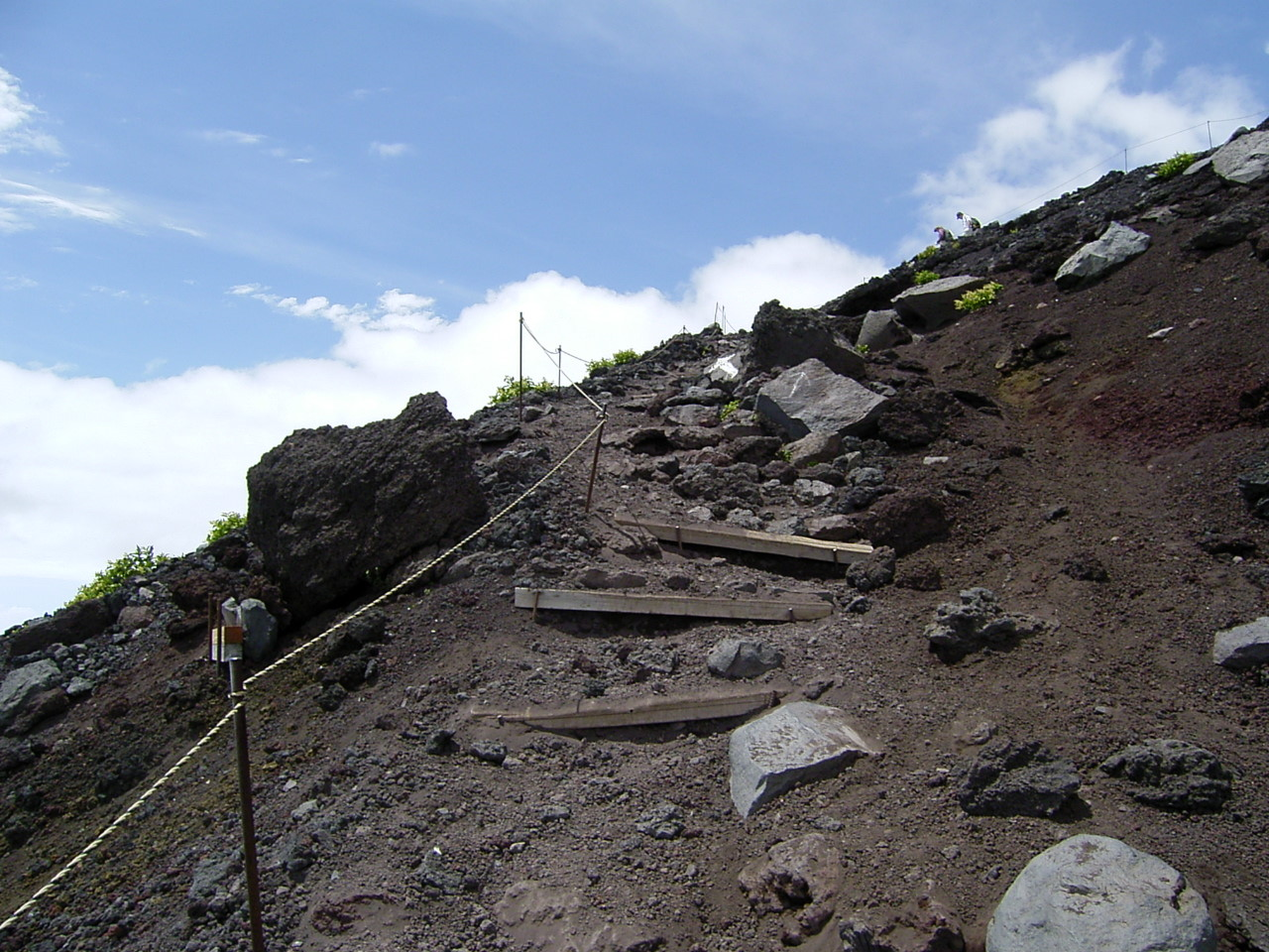 road of Mt.Fuji (Fujinomiya side)